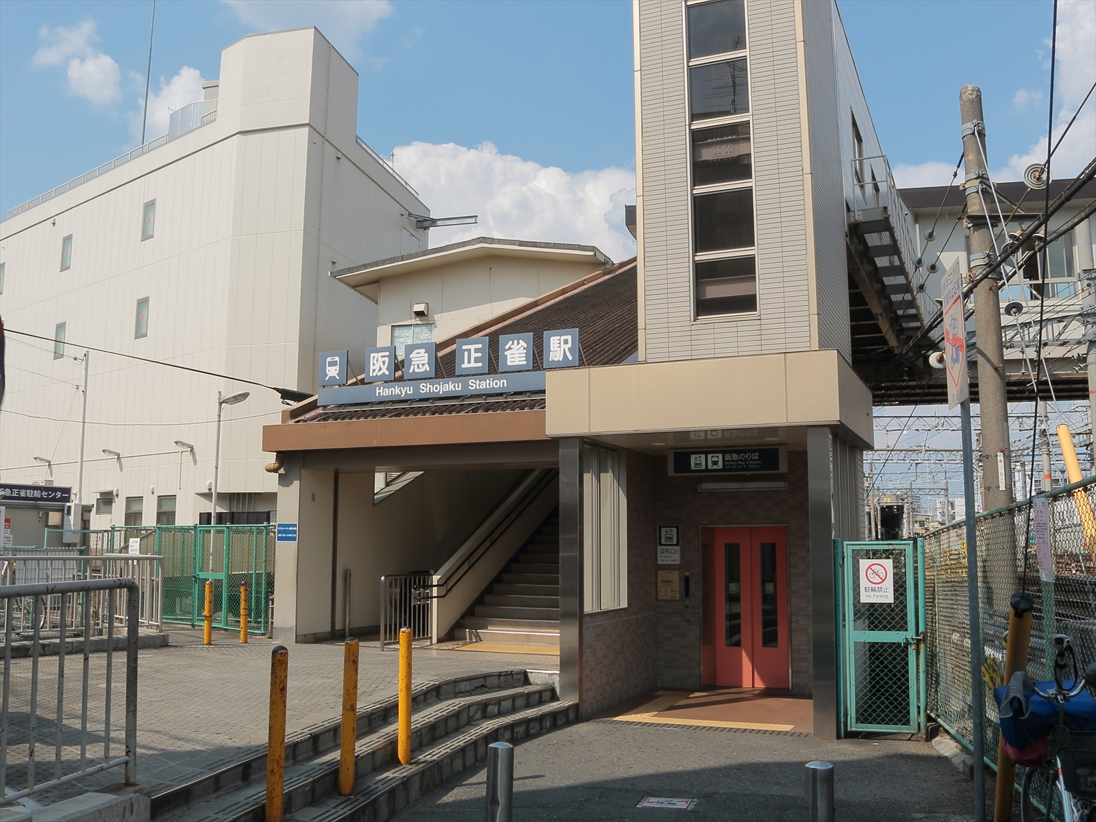 West Entrance from Shōjaku Station.